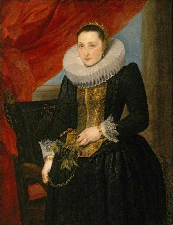 Portrait of a Lady